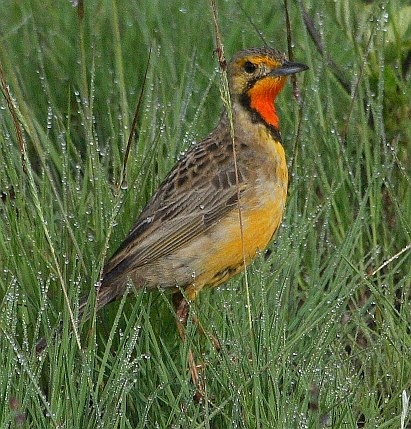 Cape Longclaw Macronyx capensis at Kamberg, KwaZulu-Natal, South Africa